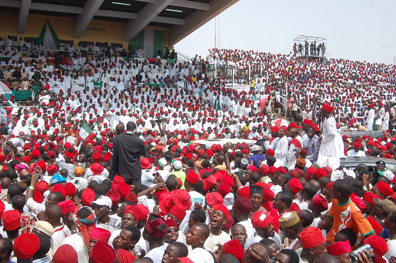 On the inauguration of the elected Governor of kano state and supreme leader of the new ideology may 29 2011 With more than five million members dress in white and Red cap to Mach that's Kwankwasiyya kano Nigeria.